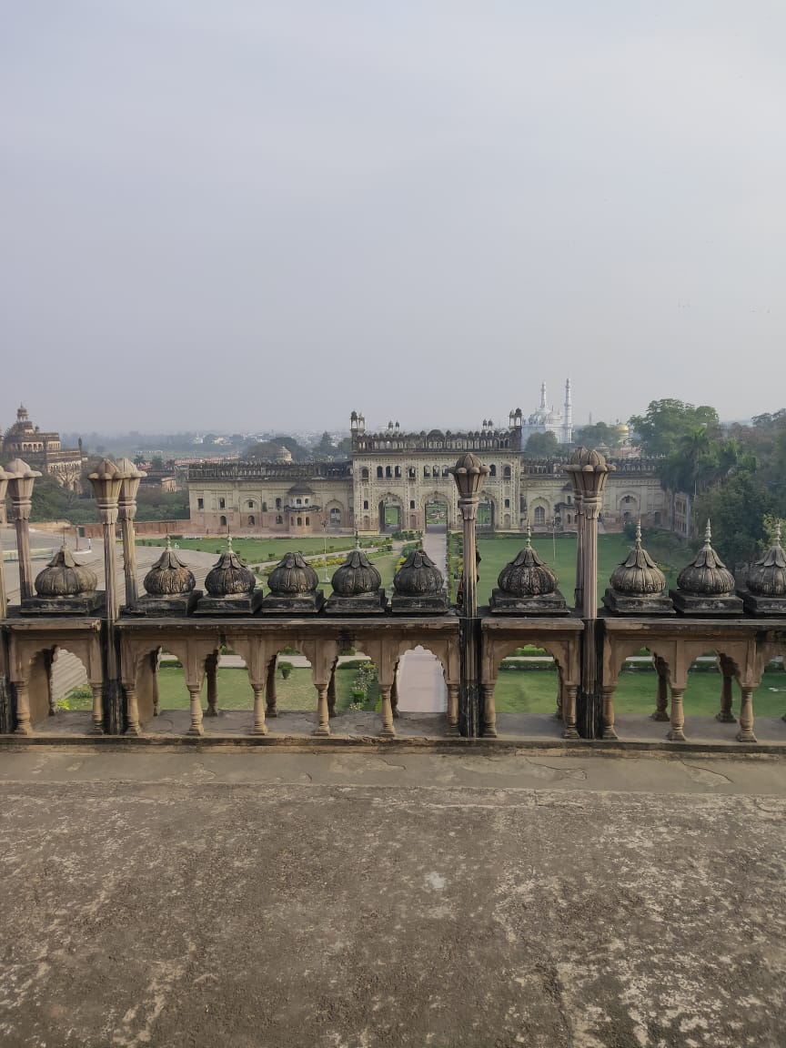 This seen located in the inner part of bhul-bhulaiya.